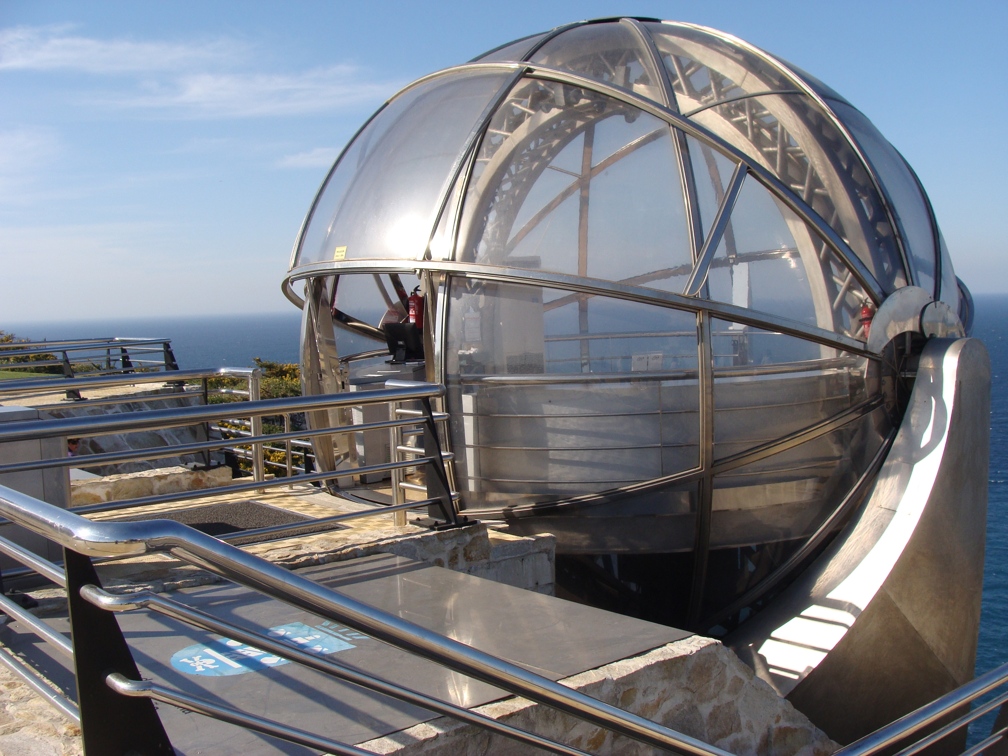 Elevator in San Pedro's Mount, in Corunna, Spain.